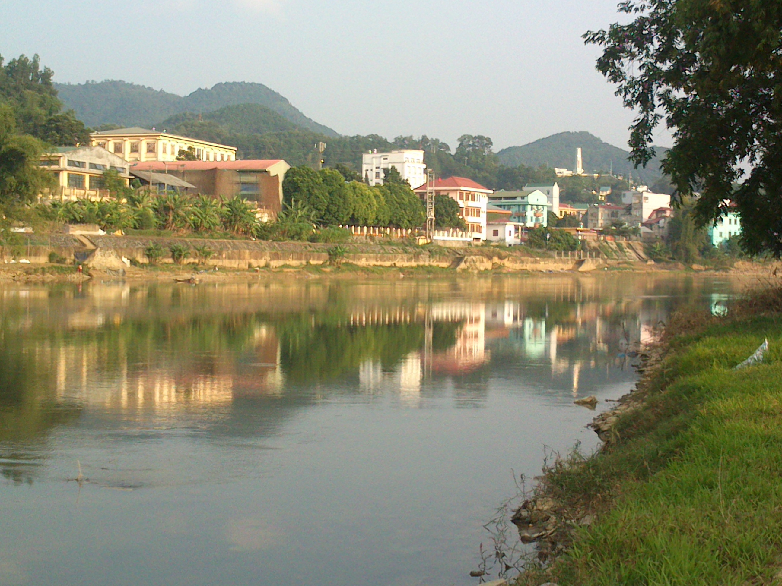 Bằng (Bằng Giang) river in Cao Bằng City, North of Vietnam.